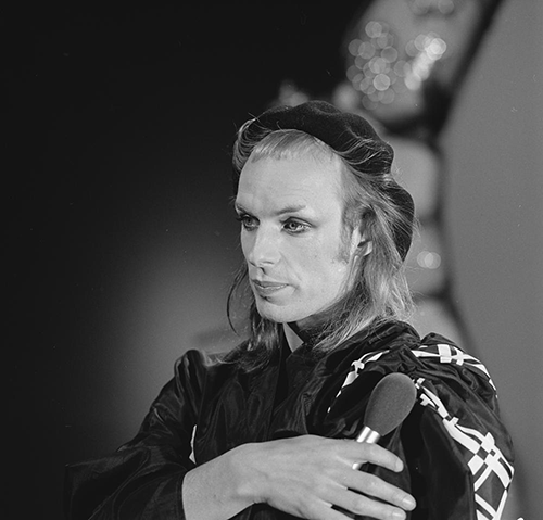 Brian Eno in AVRO's TopPop (Dutch television show) in 1974